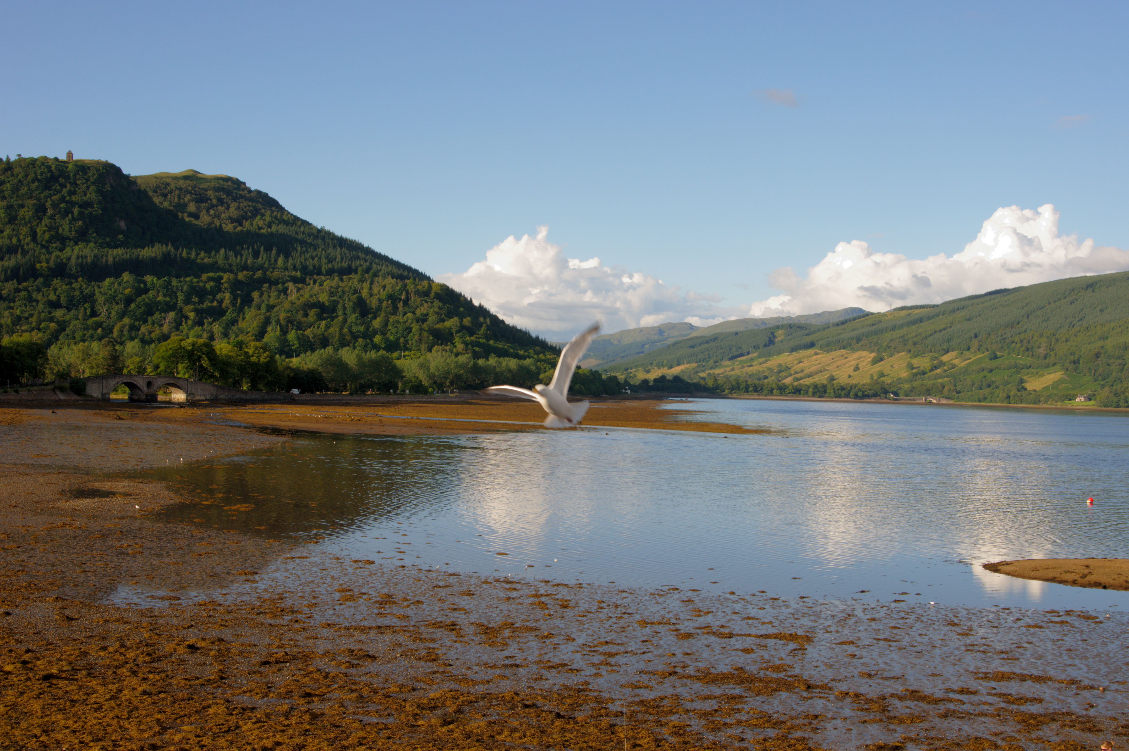 Inveraray bay, Scotland